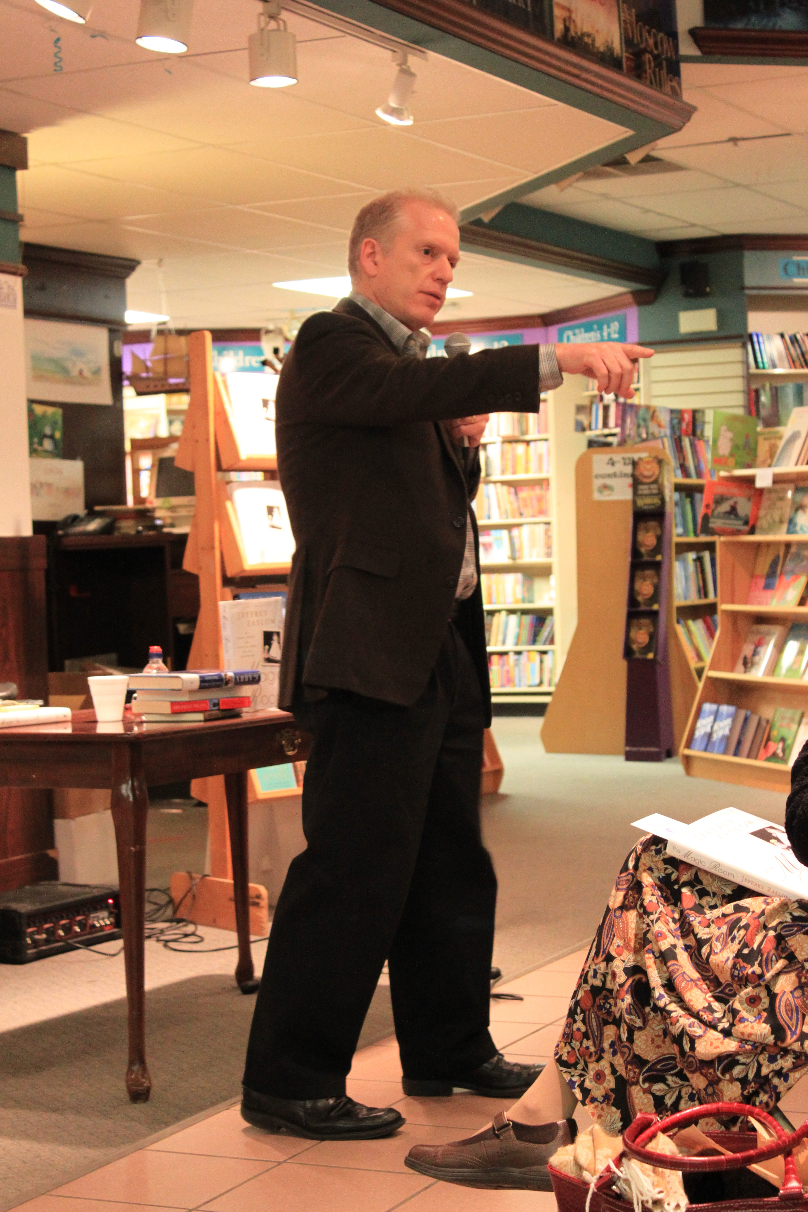 Author Jeffrey Zaslow at a book signing event February 7, 2012 at Nicola's Books, 2513 Jackson Avenue, Ann Arbor, Michigan. The author died in an automobile accident three days after this photograph was taken. I, the author of this photo, can report that I communicated with Jeffrey Zaslow about this photograph by e-mail before his death and he graciously responded to me by thanking me me for contributing to Wikipedia in general and for contributing this photo to the eponymous Wikipedia article.